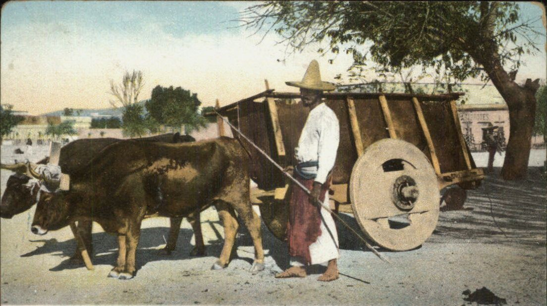 A postcard of a Mexican ox-cart